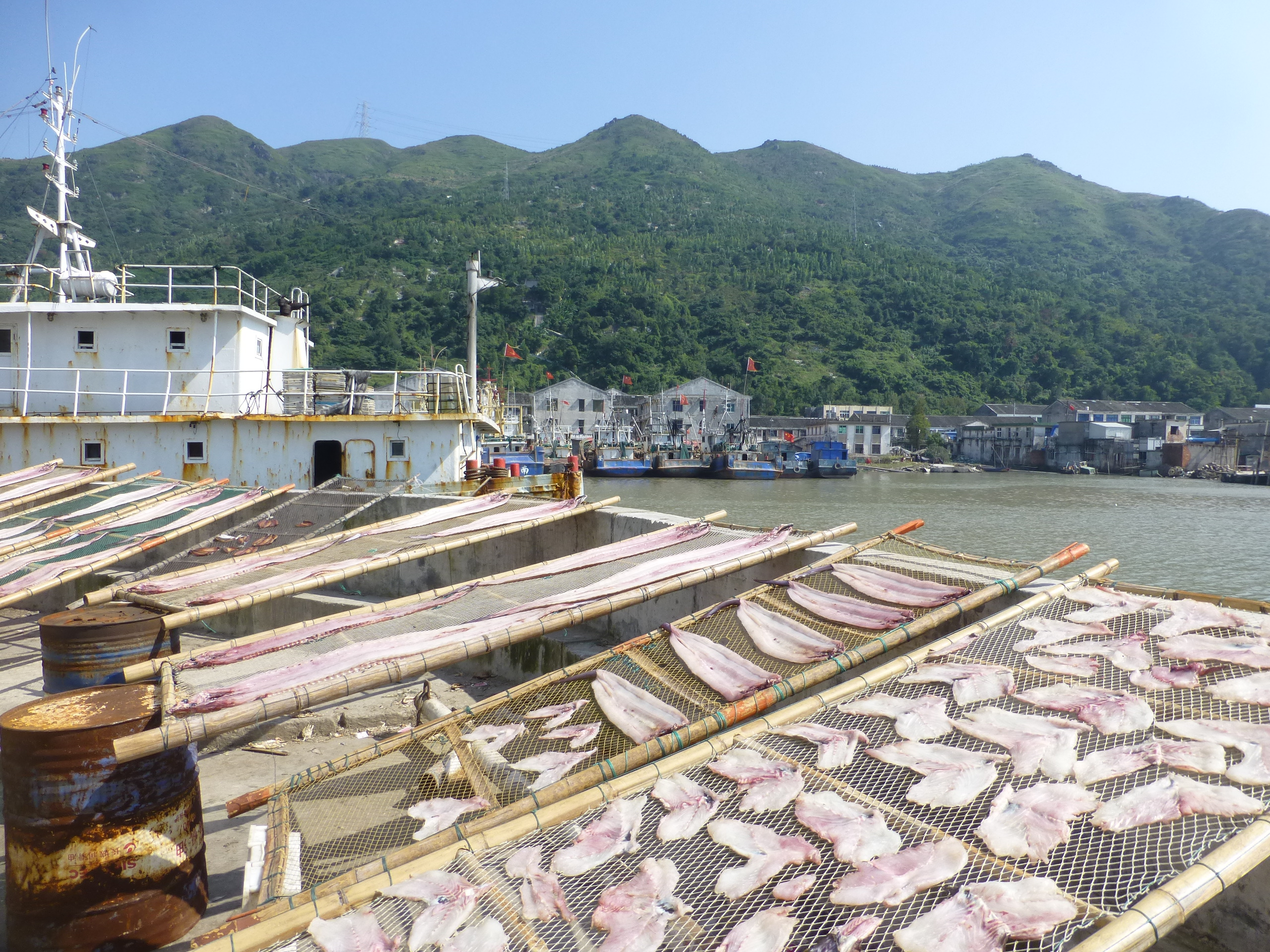 The former Pacao Town (now part of Longgang Town), a fishing harbor in Cangnan County, Zhejiang, China.